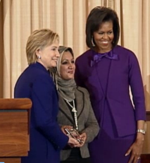 Mar. 11, 2009: Secretary of State Hillary Rodham Clinton hosted the 3rd annual International Women of Courage Awards ceremony with guest speaker First Lady Michelle Obama in the Ben Franklin Room at the State Department.